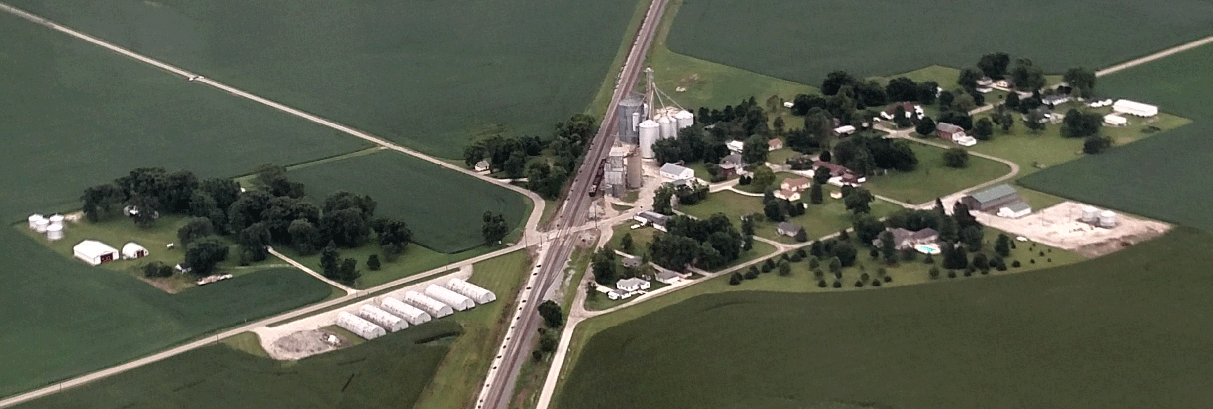 An aerial photograph of Marshfield, Warren County, Indiana, United States, looking toward the southwest